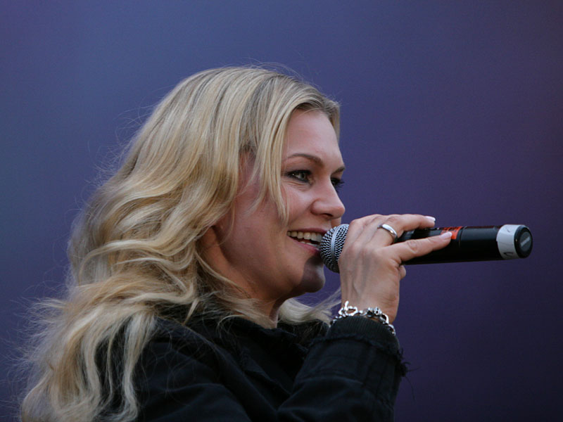 Anna Loos, on stage with Silly, Chemnitz/Saxony 2007.